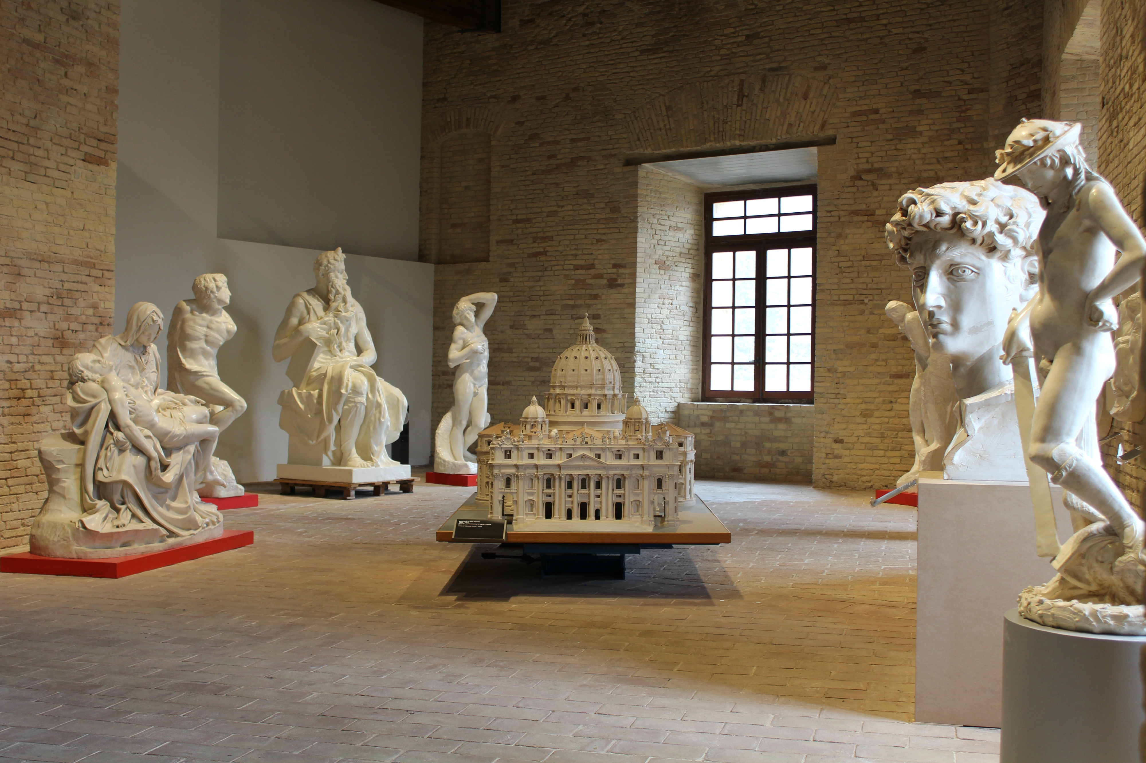 Renaissance Sculpture of the Homer State tactile Museum